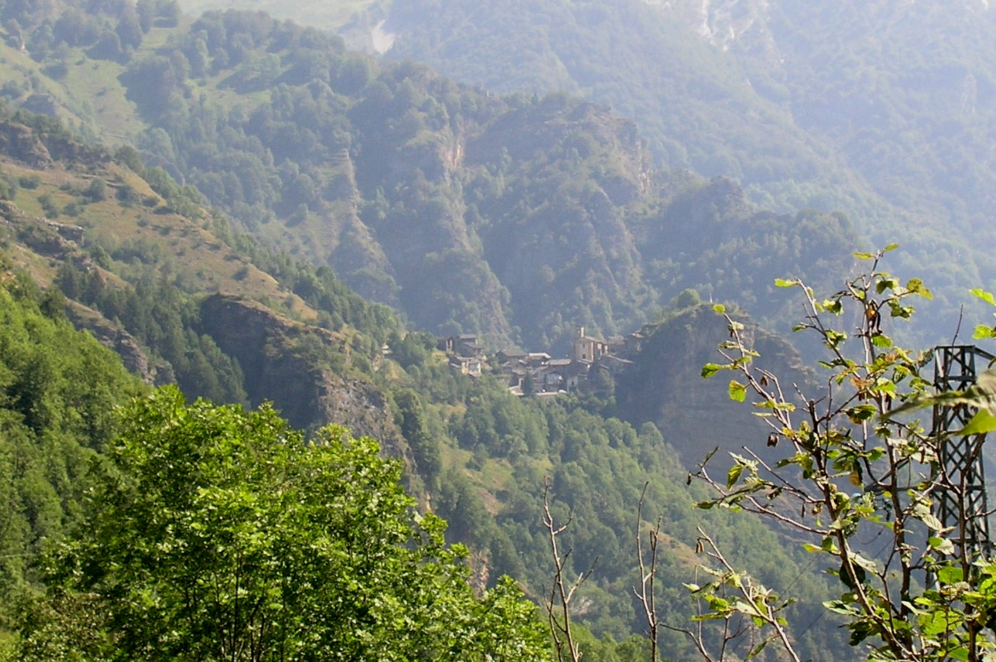 Frazione Colletto, Castelmagno (Italy)